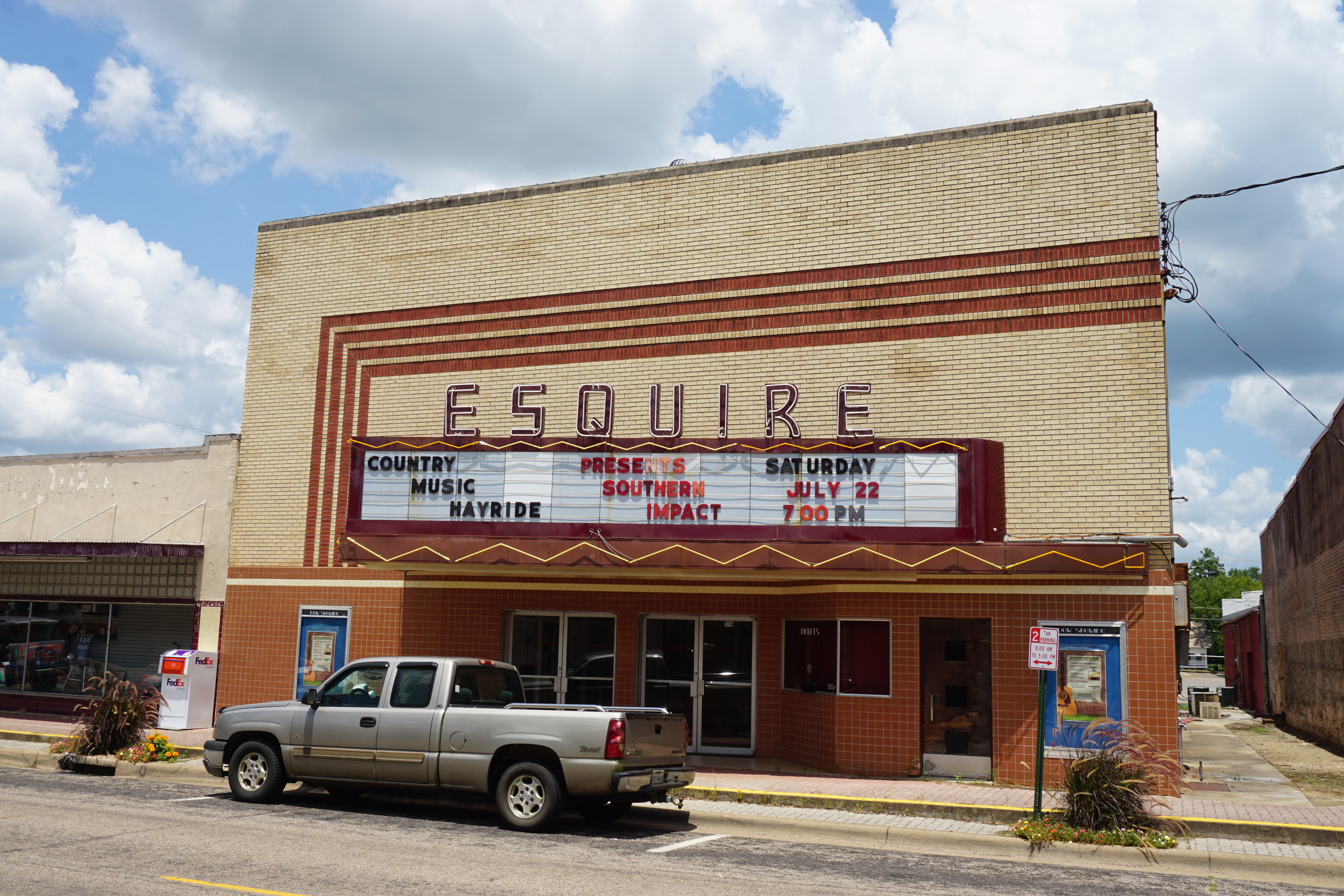 The Esquire theater in Carthage, Texas (United States).